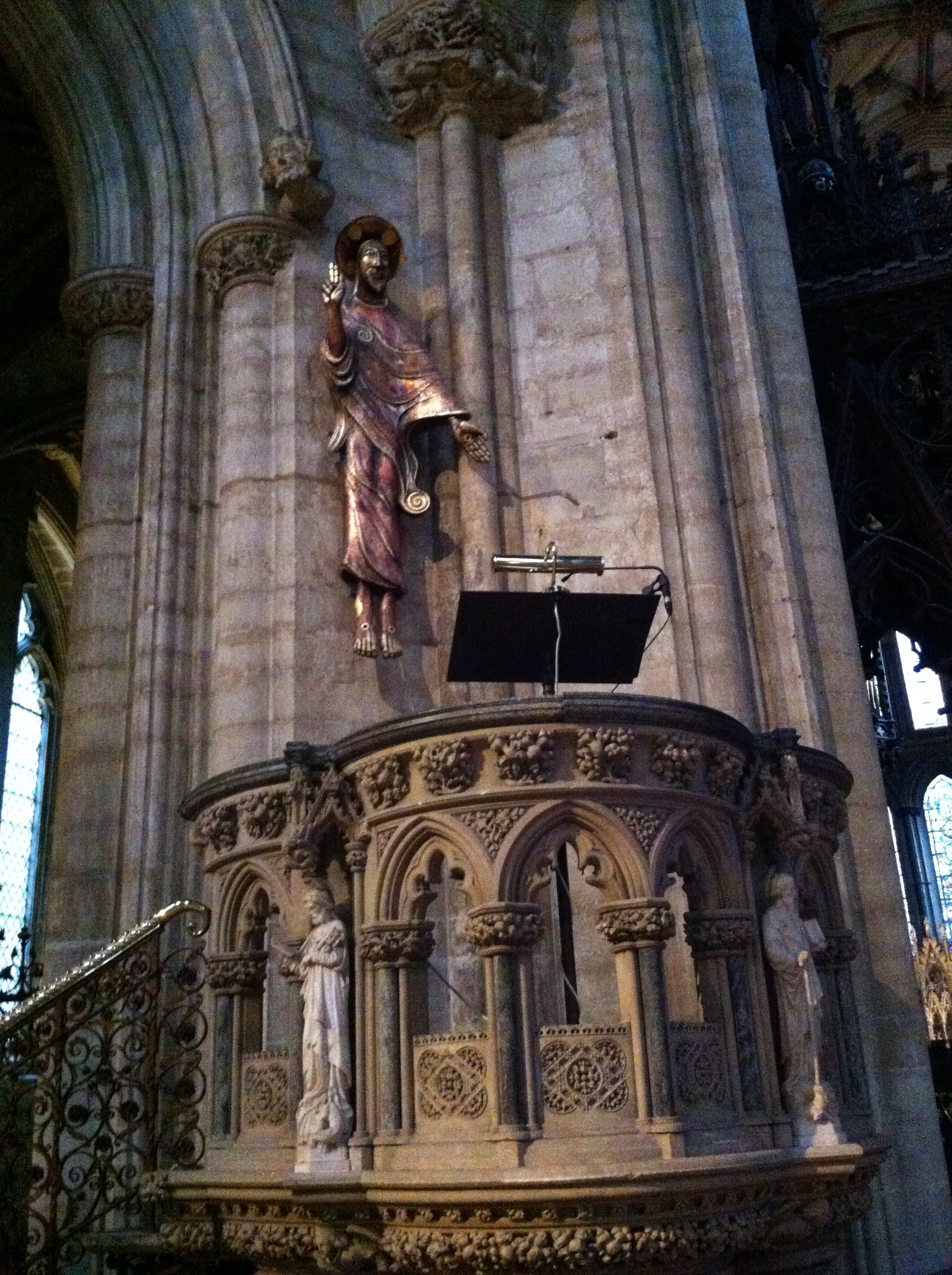 Christ in Glory (2000) by Peter Eugene Ball above the pulpit of Ely Cathedral